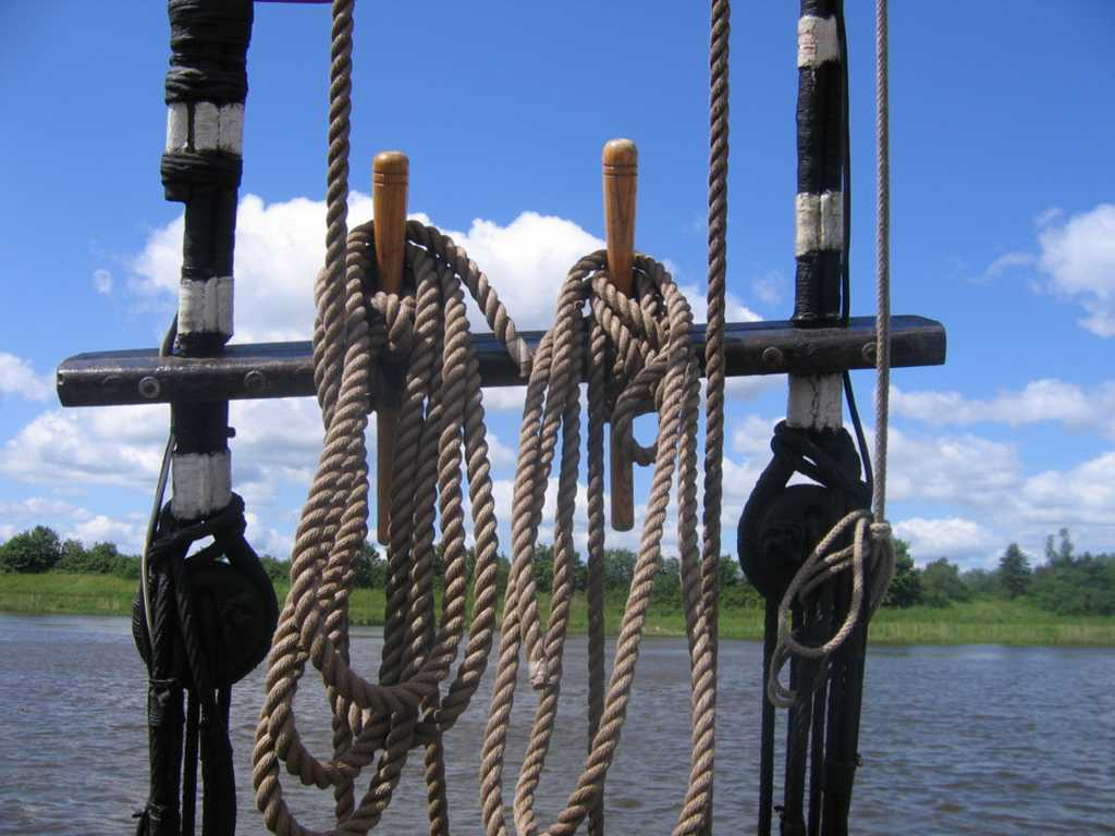 Belaying pin rail with two belaying pins.